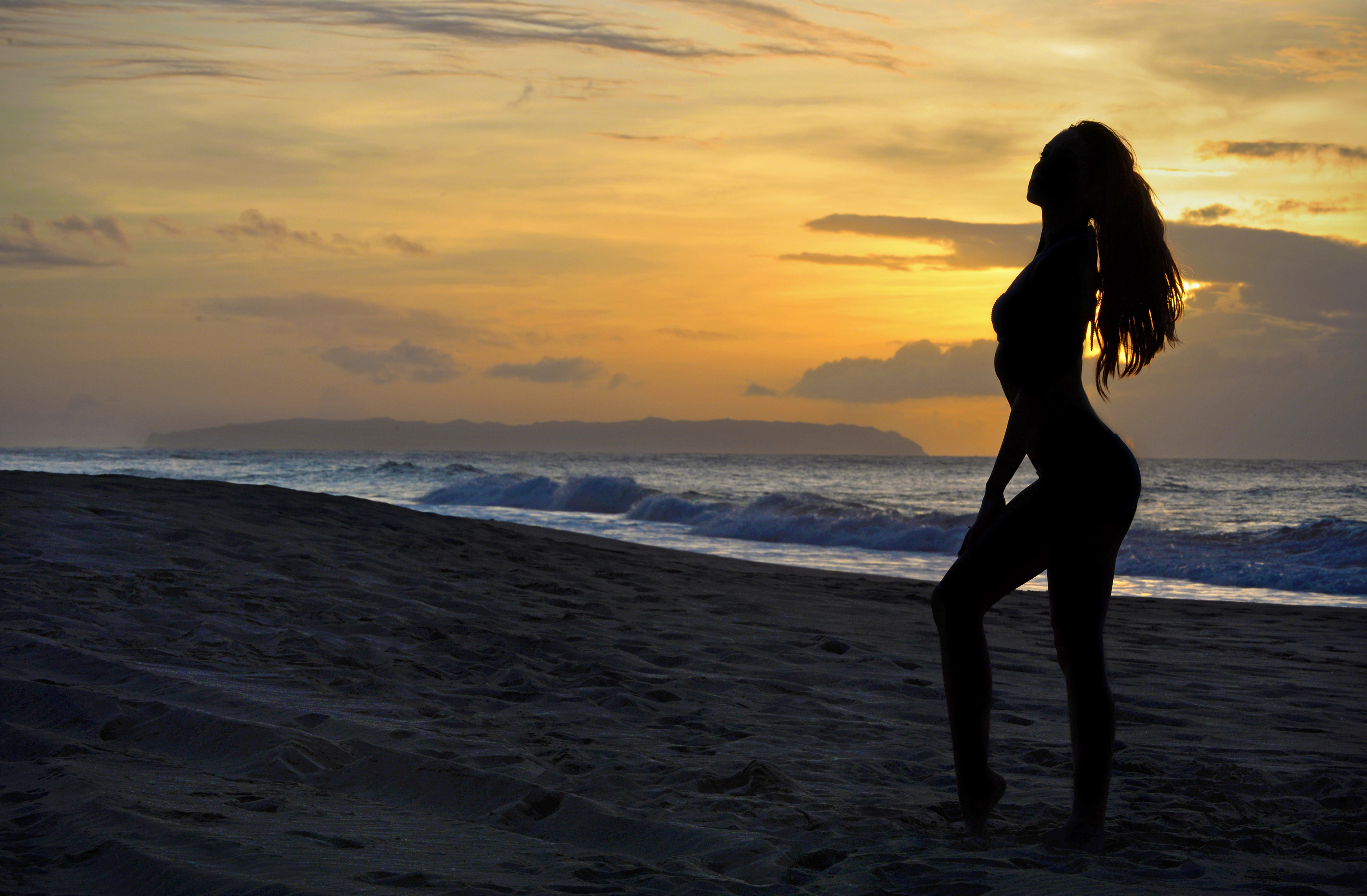 View of the island of Ni'ihau, Hawaii (background), from the coast of Kaua'i, Hawaii (foreground), at sunset. Attribute to Steven Keys and to